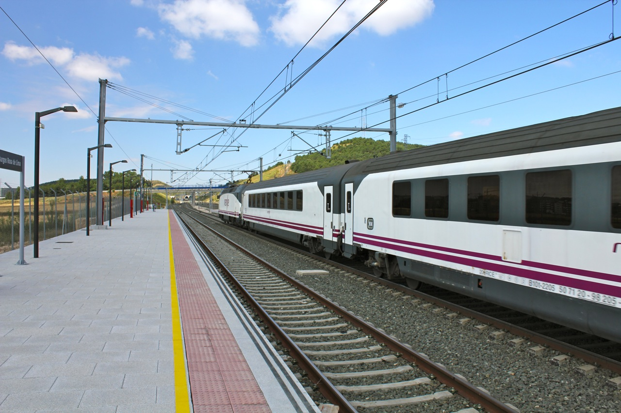 Burgos Train Station